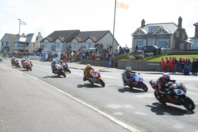 The North- West200, 2006 on Juniper Hill, Co Antrim. Established in 1929 this Motorcycle event runs the triangular circuit from Portrush to Portstewart to Coleraine.